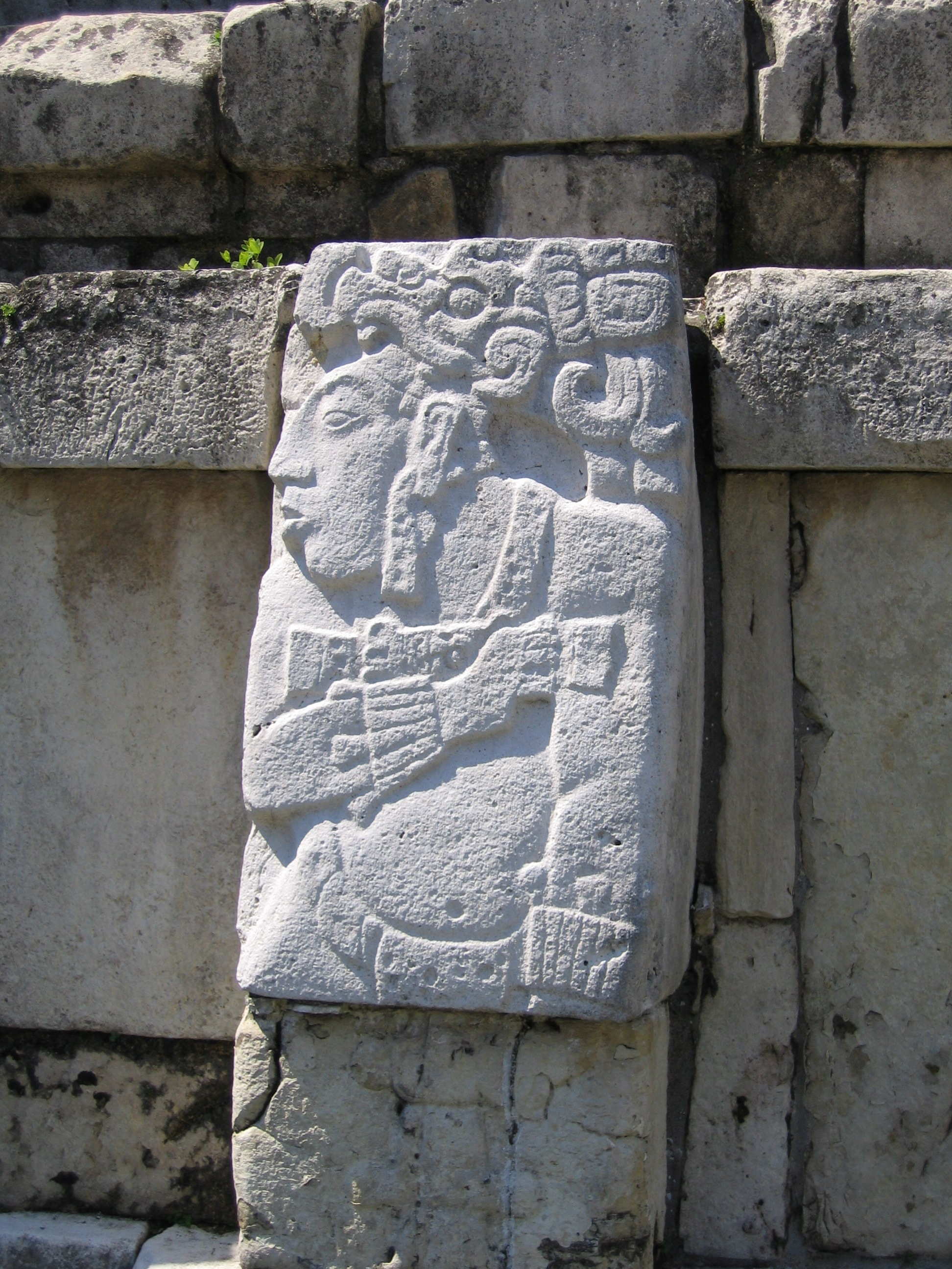 Image from the Maya site of Palenque: Ahiin Chan Ahk, a Maya lord captured by the king of Palenque K'inich Janaab Pakal I in AD 659